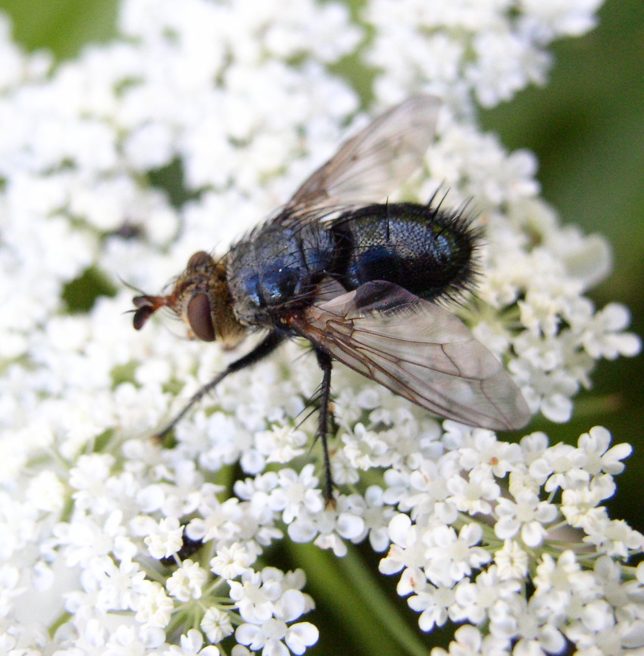 Tachinid fly, Archytas sp. on Queen Anne's Lace. Pennypack Trust, Montgomery County, Pennsylvania, USA.